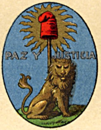 Coat of arms of Paraguay